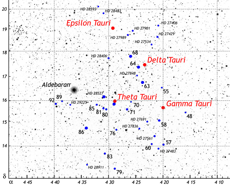 This map represents prominent stars in the core of the Hyades Cluster. Filled red circles refer to red giant stars. Filled blue circles refer to A, F, and G-type stars. The four Hyades giants are labeled with their Bayer designations (e.g., Epsilon Tauri). Arabic numerals provide Flamsteed designations (e.g., 68 Tauri). Small italics provide designations from the Henry Draper catalog (e.g., HD 28406). The vertical scale indicates declination; the horizontal scale indicates right ascension, measured in hours and minutes. Not all stars in the field of view belong to the Hyades Cluster. Membership determinations were made on the basis of Table 2 in Perryman et al., "The Hyades Cluster: distance, structure, dynamics, and age" (Astronomy and Astrophysics 331, 81-120, 1998). On this map, the only non-member star that carries a label is the most prominent one, Aldebaran. All other non-member stars are left unmarked.